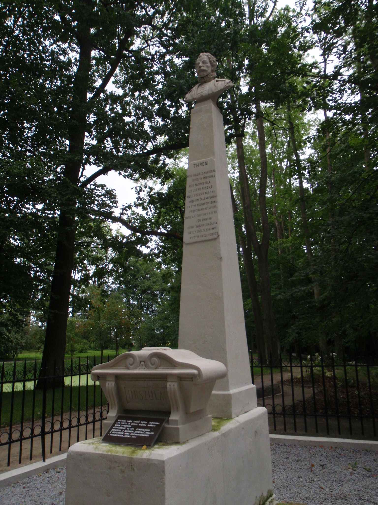 Museum of Jan Kochanowski in Czarnolas - obelisk in place of famous tilia